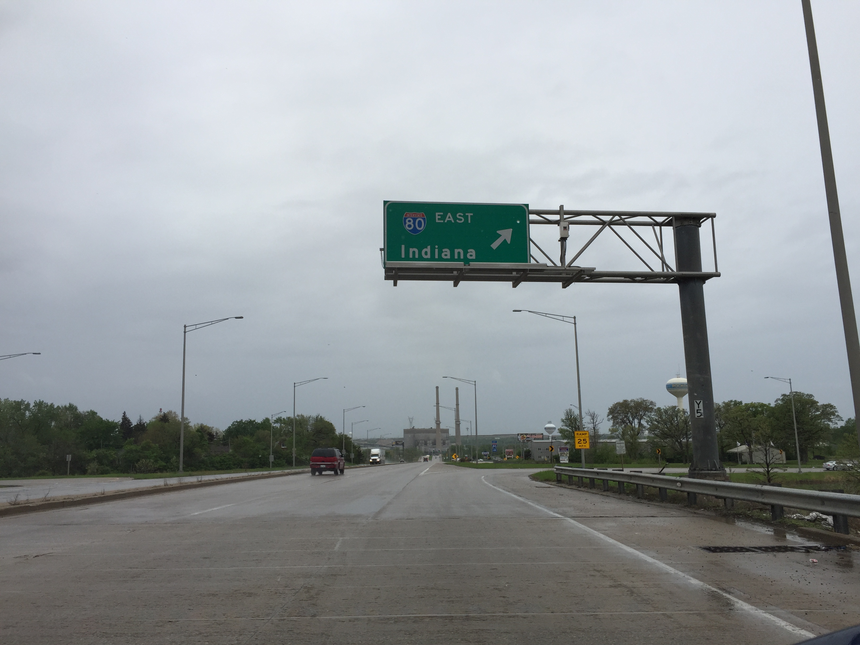 View south along Illinois Route 7 at the entrance to Interstate 80 eastbound in Joliet, Illinois